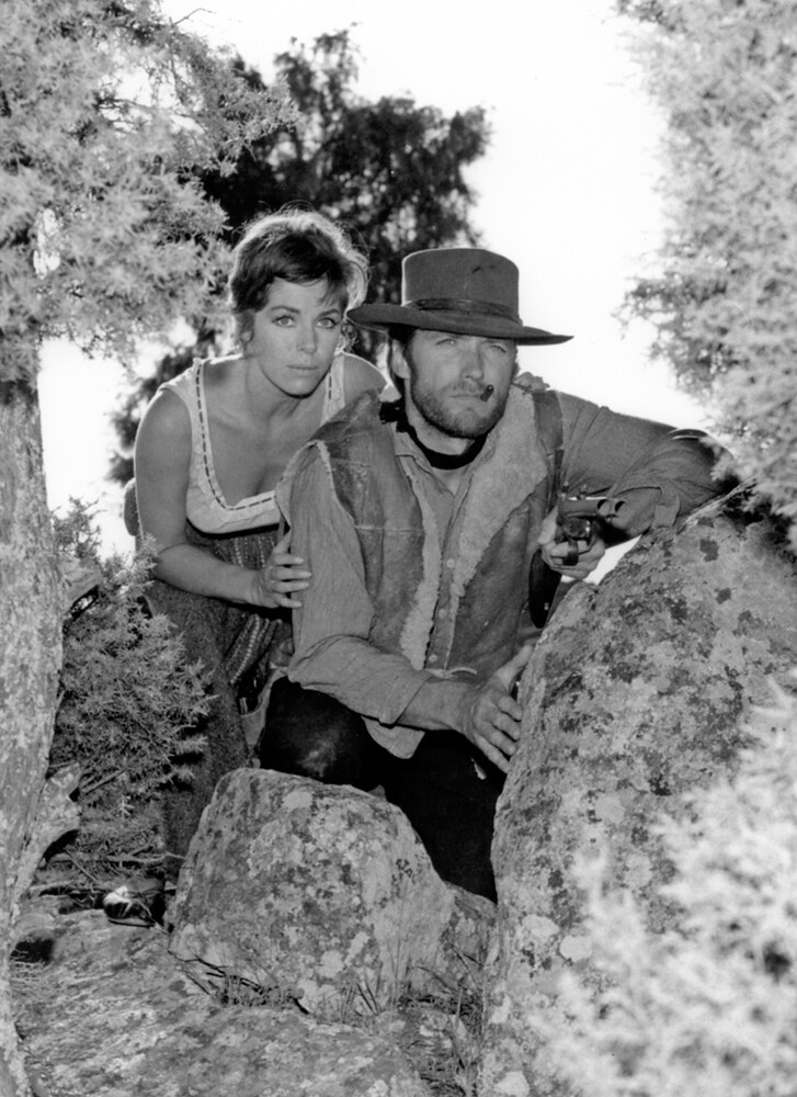 Marianne Koch and Clint Eastwood in Sergio Leone’s classic Spaghetti Western and first entry in his Man With No Name series, A Fistful of Dollars also known as Per un pugno di dollari.